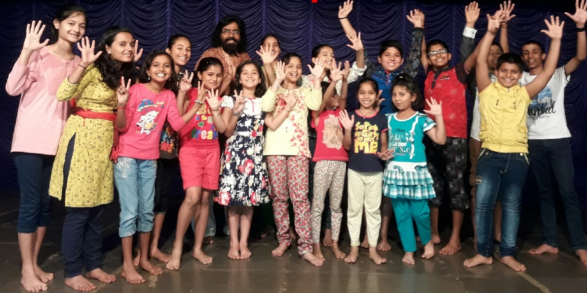 Ravindra Amonkar with children at Bal Bhavan